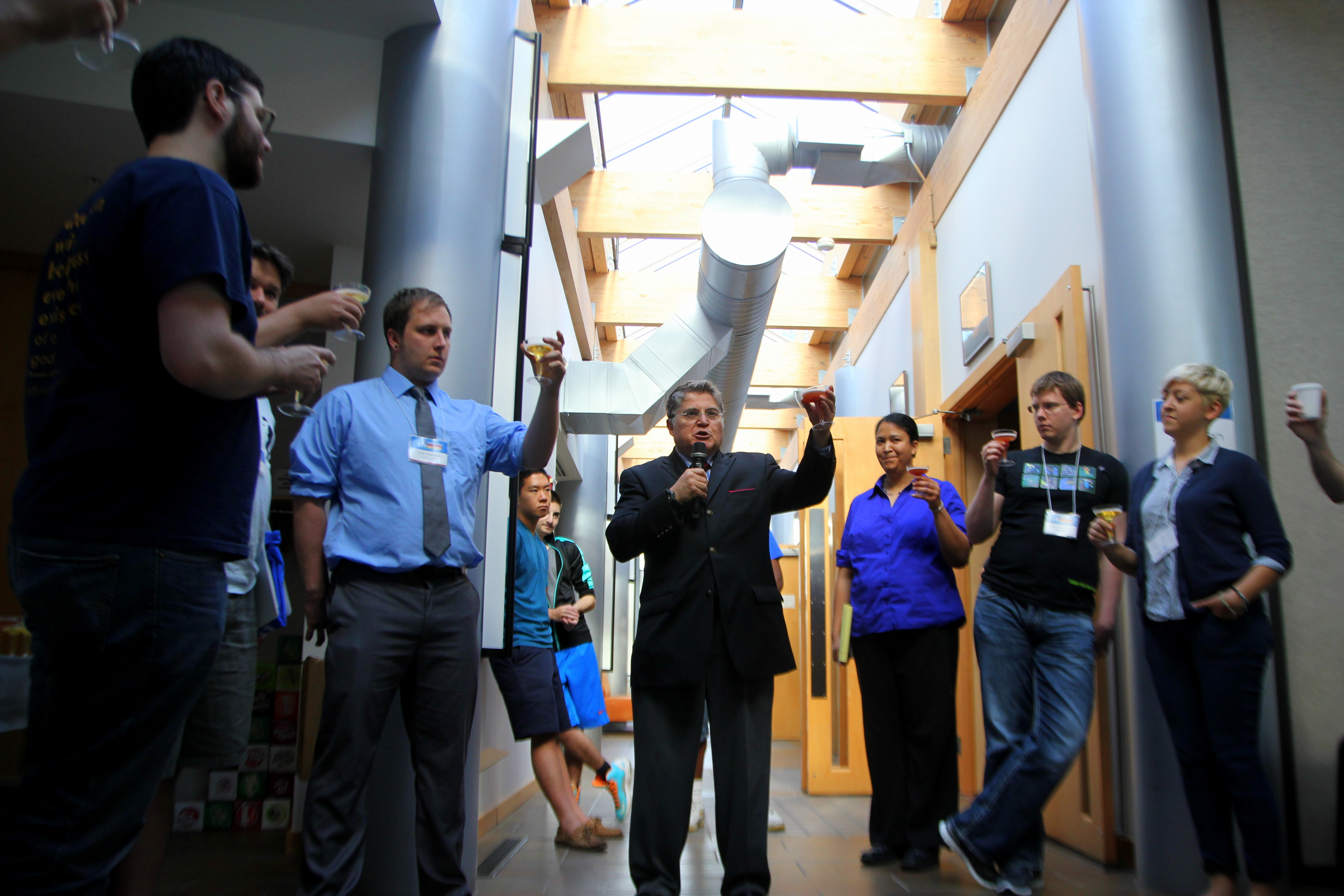 Opening remarks at the CFI Student Leadership Conference 2013 - Amherst, NY